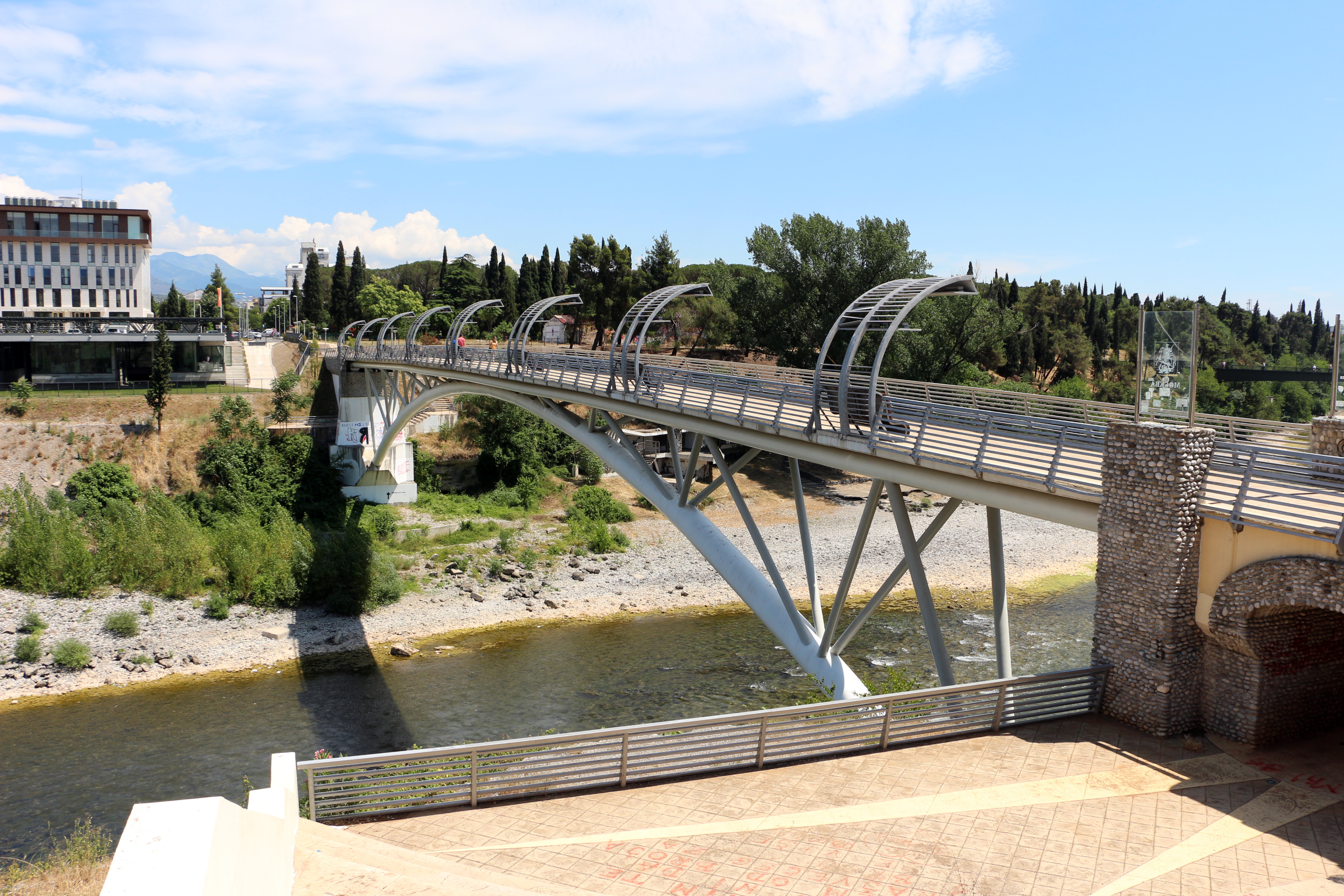 Bridges in Podgorica